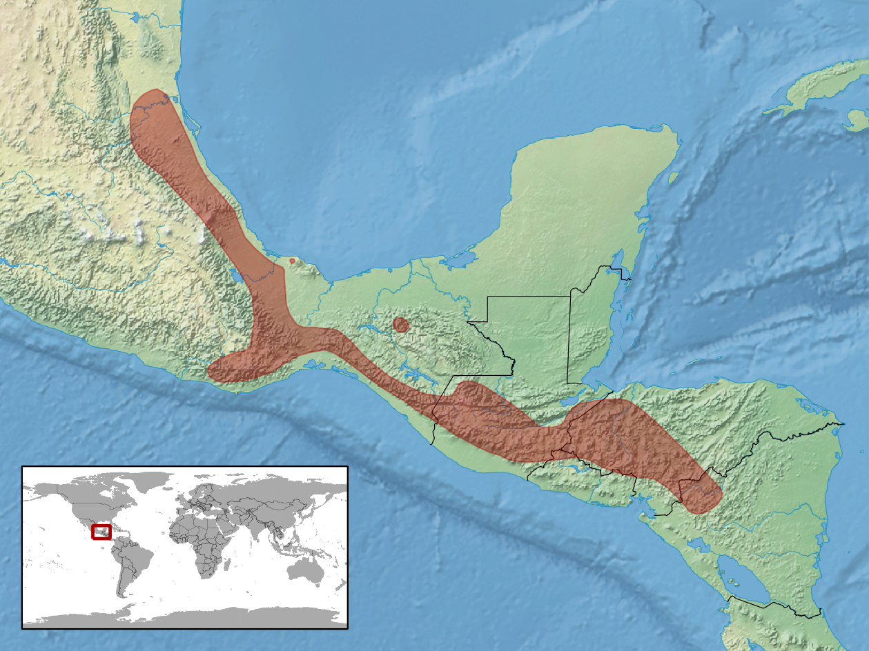 geographic distribution of Drymobius chloroticus (Native: Guatemala; Honduras; Mexico; Nicaragua)